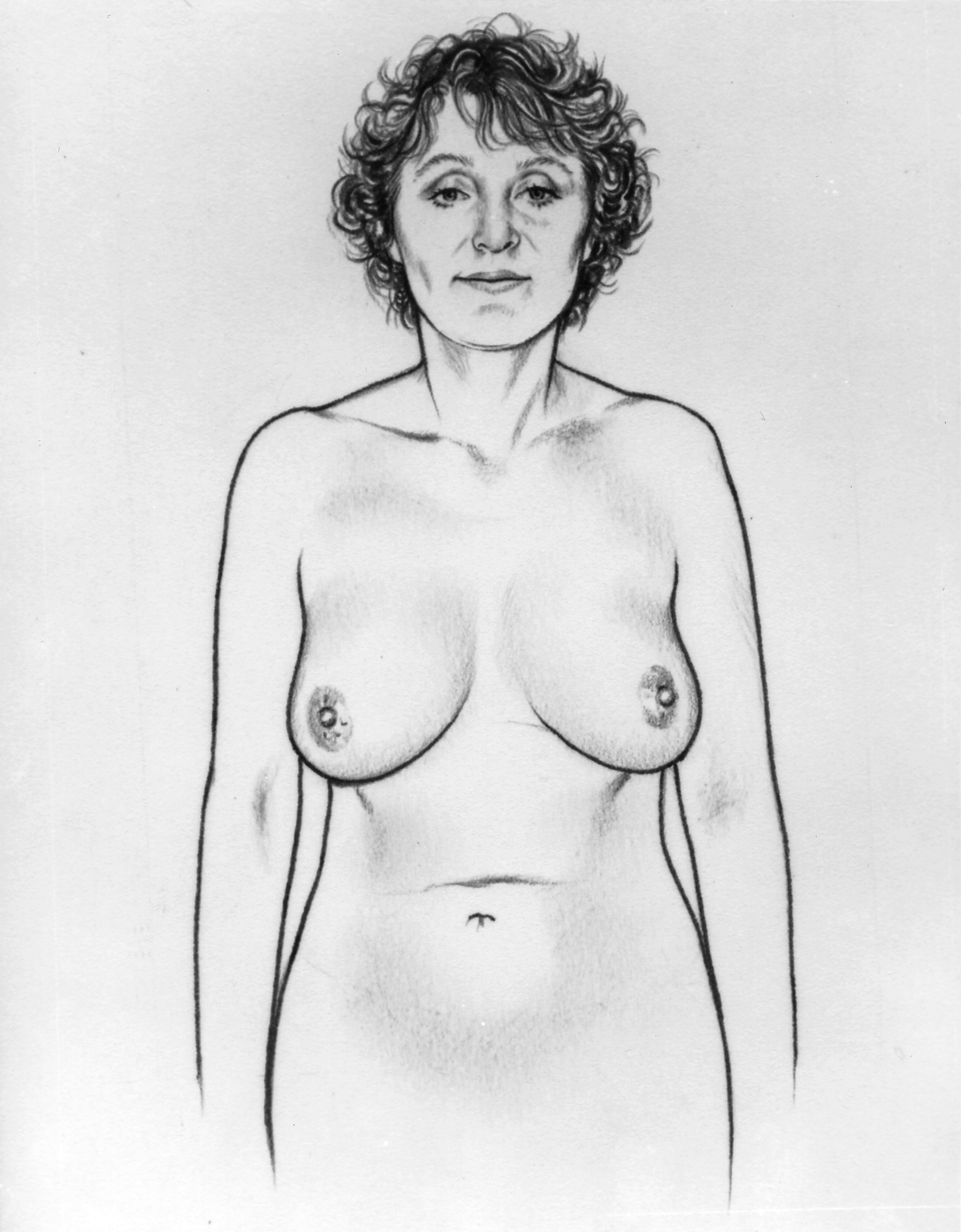 Title Breast Self-Exam Illustration (Series of 6) Description This is the first image in a series of six illustrations showing how to do breast self examination (BSE). Image shows nude woman. See other images: Topics/Categories Cancer Types -- Brain Cancer Historical -- Graphics Test or Procedure -- Physical Exam Type B&W, Medical Illustration Source National Cancer Institute